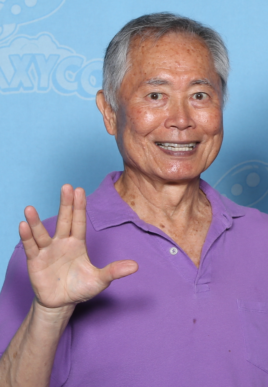 George Takei at GalaxyCon Raleigh in 2019